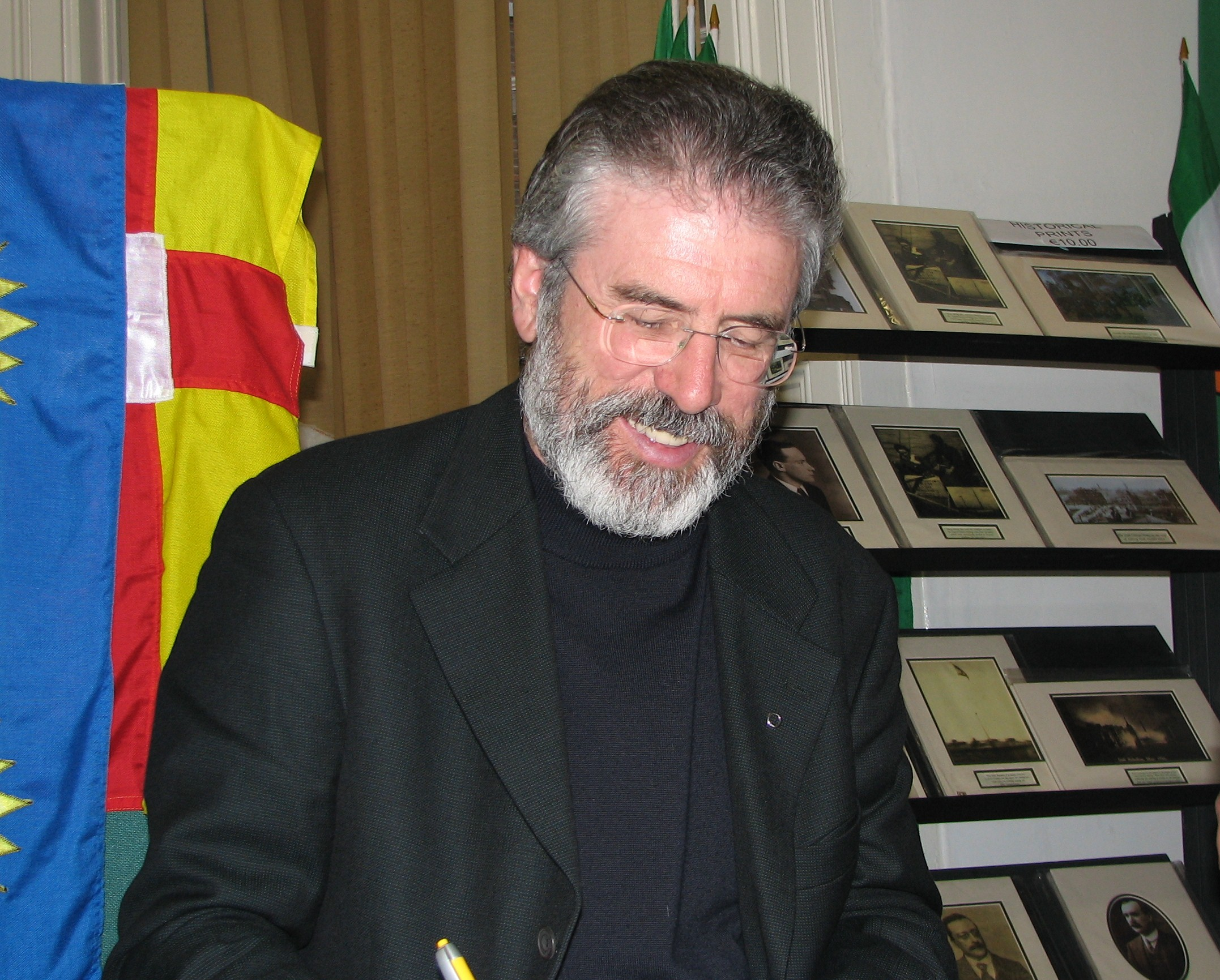 Gerry Adams, at a book signing at the Sinn Féin Bookshop, 58 Parnell Square Dublin